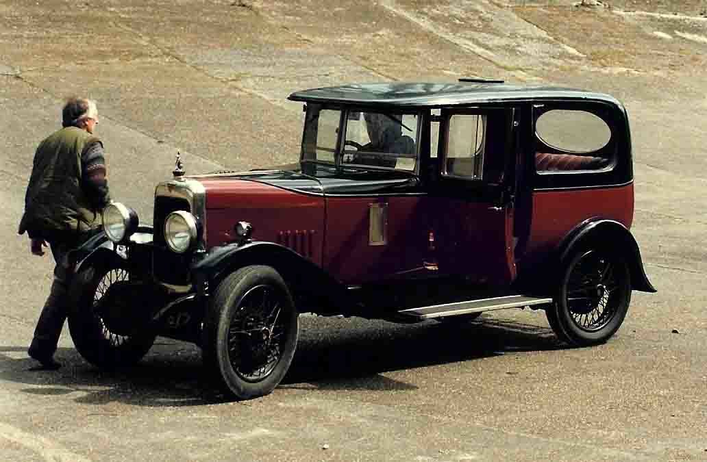 This 2-door saloon body is by Carbodies and is identical to the Salonette fitted to the MG 14/28 and 14/40